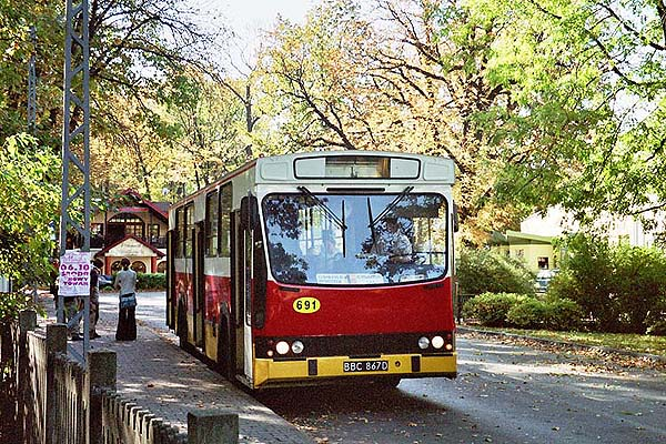 Jelcz M11 (#691) bus in Bielsko-Biała, Poland. Built 1988, MZK Bielsko-Biała operator.